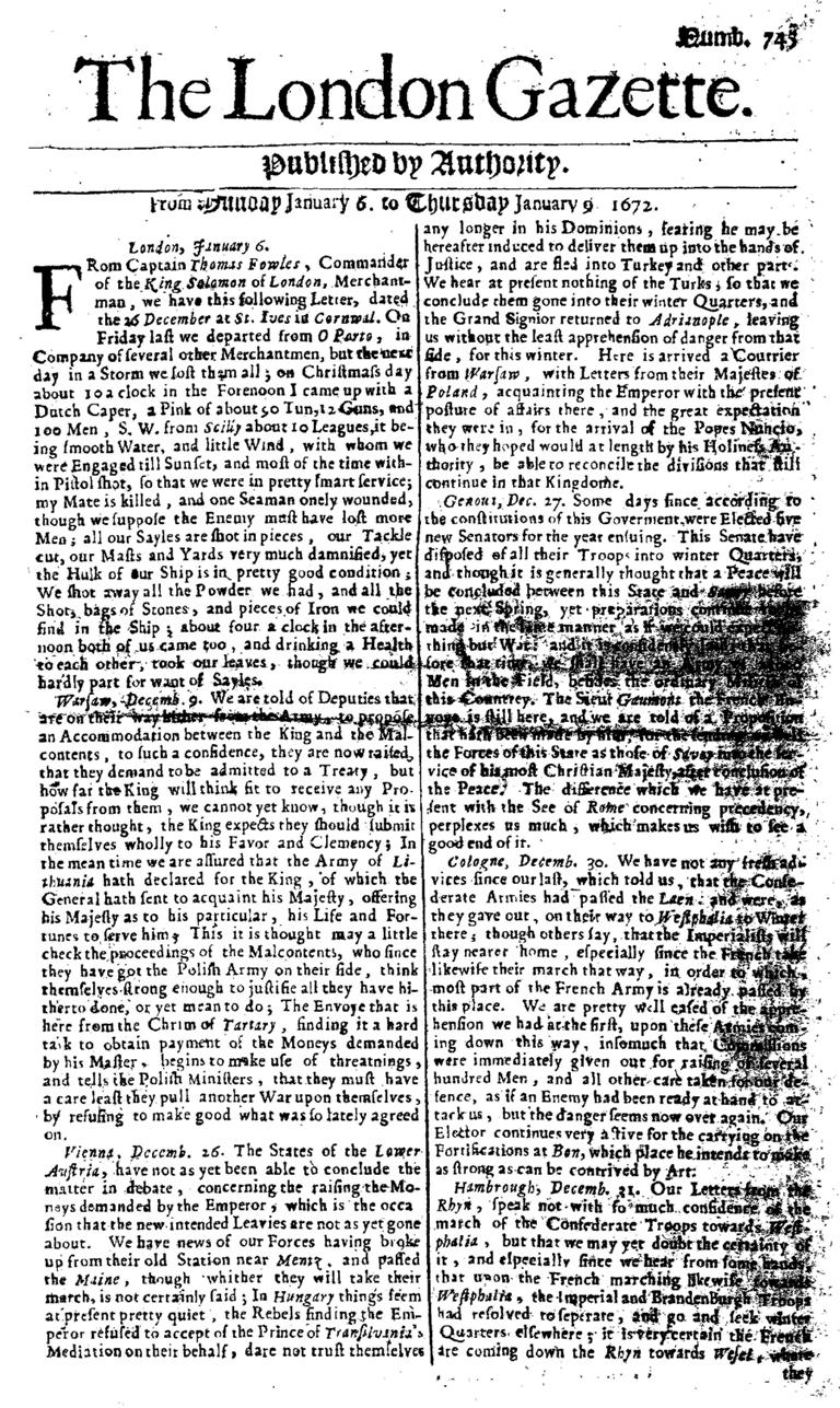 The London Gazzette (Thursday, 9 January 1672)